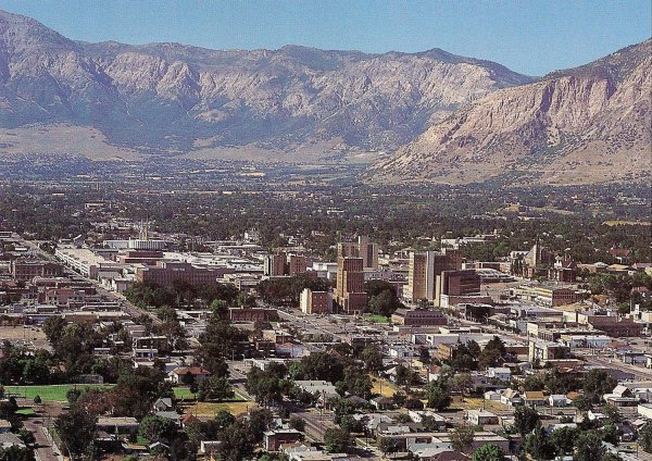 This is Downtown Ogden.